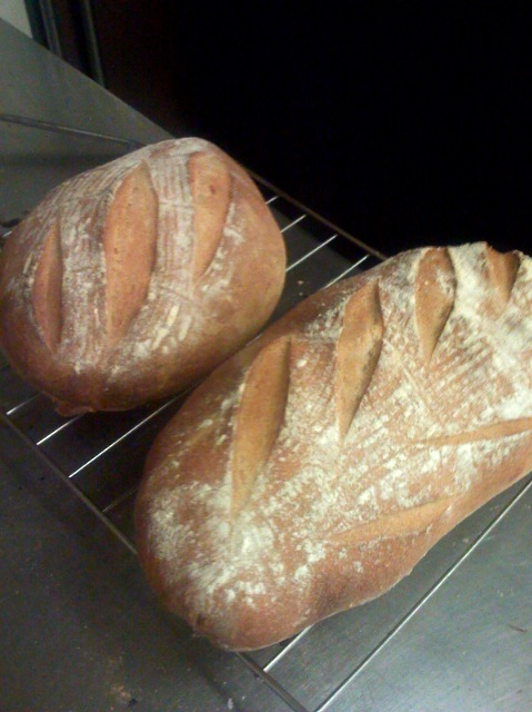 A country French-style bread made and scored by hand. Note the flour patterns.